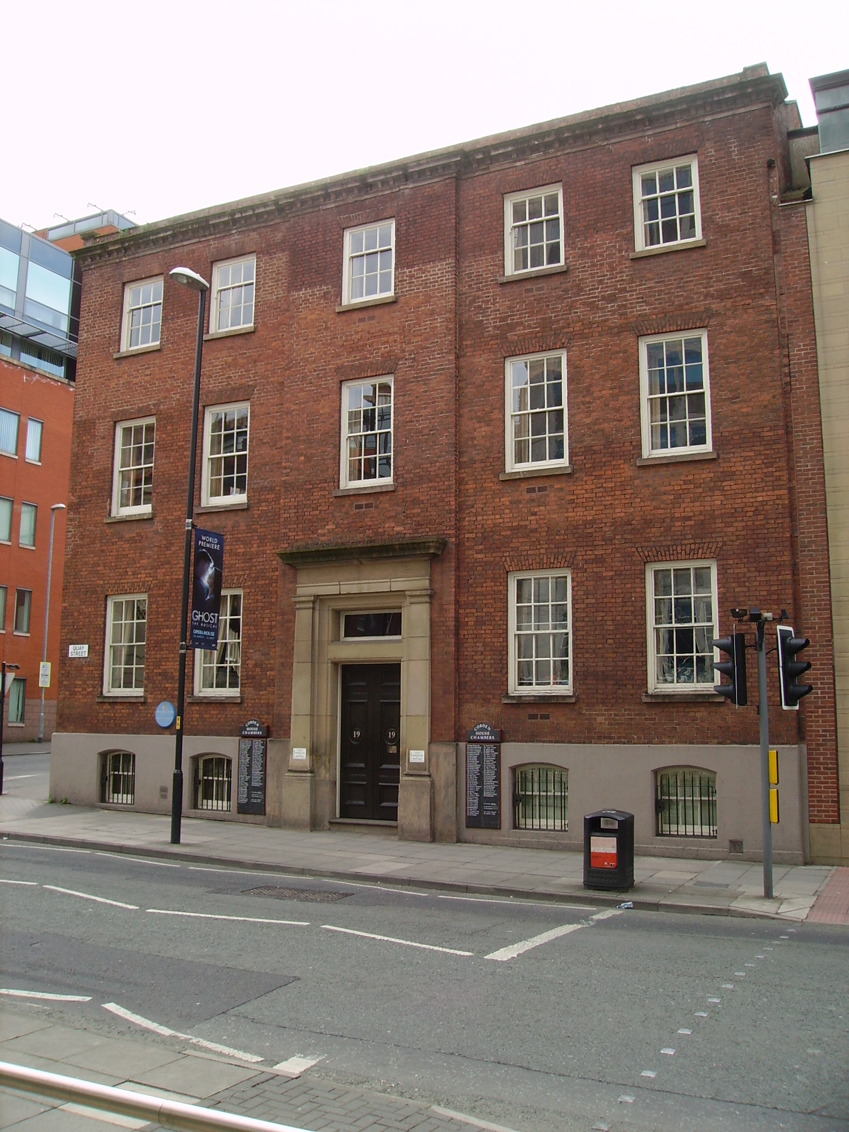 Former County Court, Quay Street, Manchester